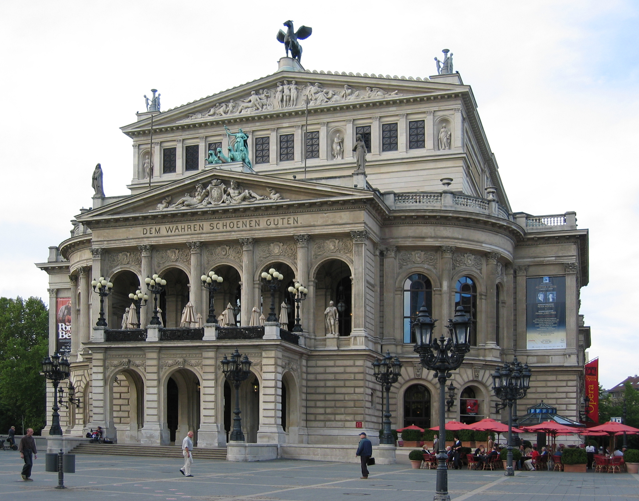 Alte Oper Frankfurt am Main, modified by T.h., Source: Image:Frankfurt am Main - Alte Oper 2.jpg